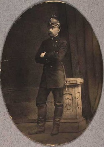 Rogert Conradin Møller (1844-1918), Danish architect and politician